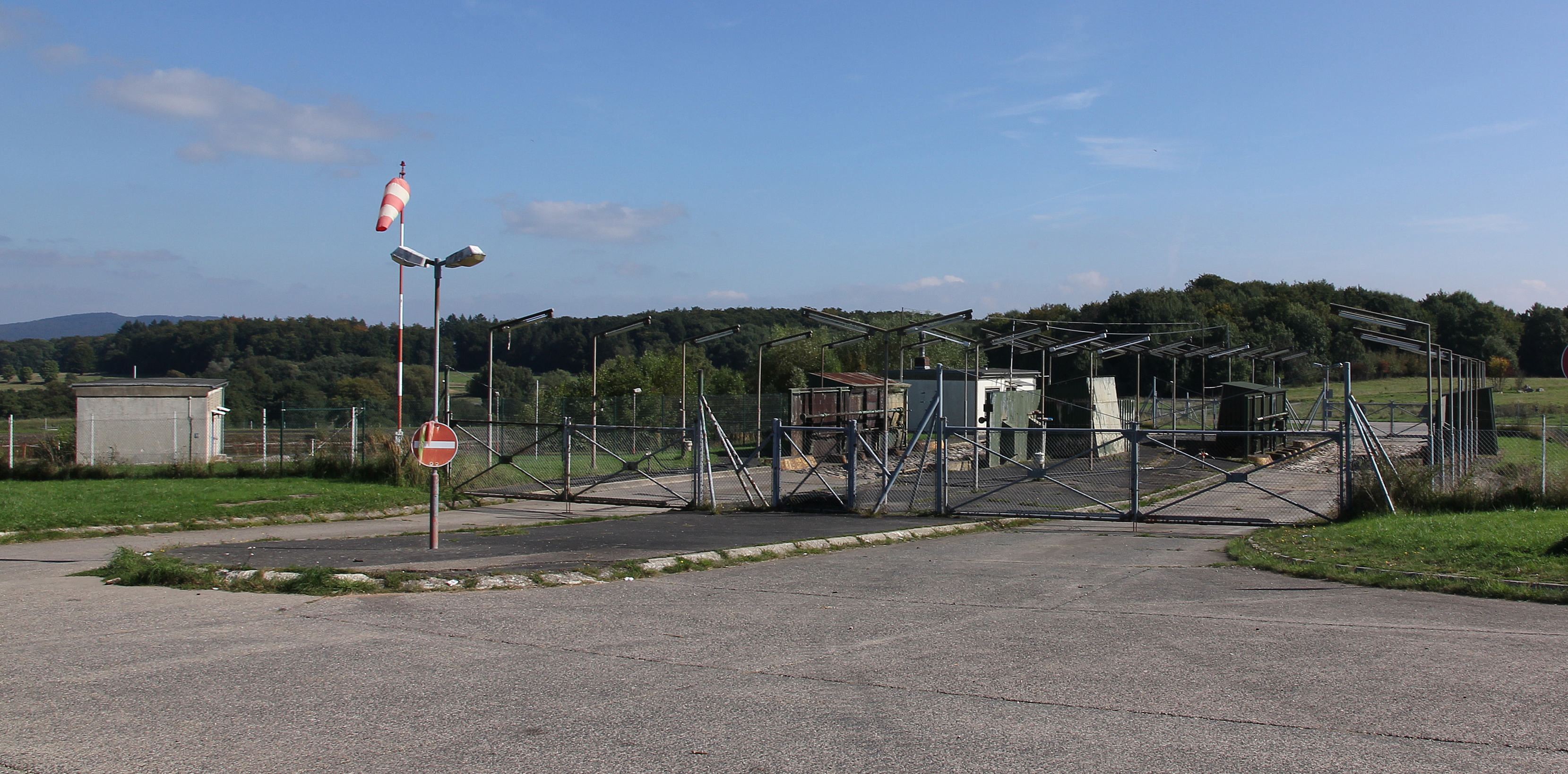 Standortübungsplatz Koblenz-Schmidtenhöhe in Koblenz